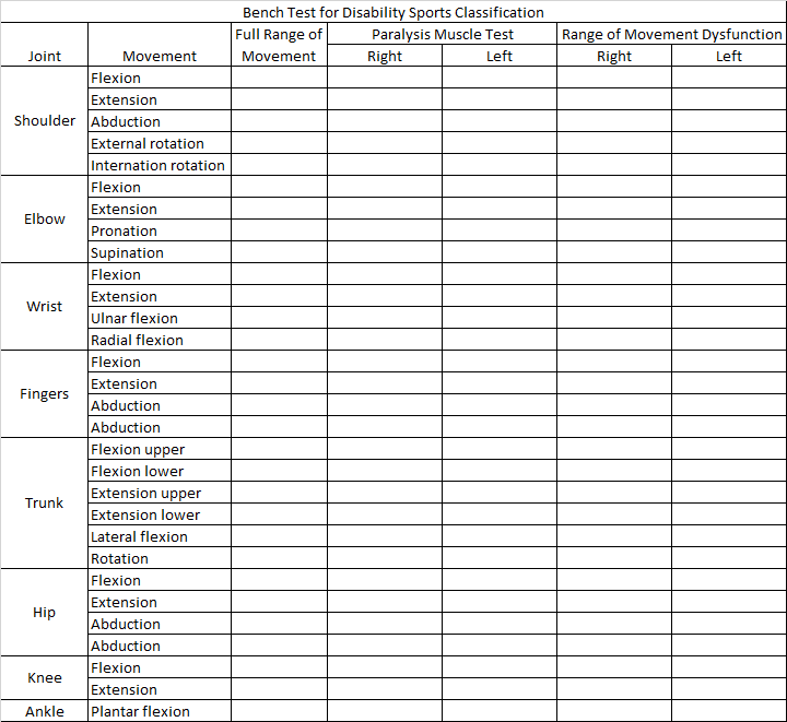 A variant of a bench test form used to classify people in disability sports derived from about 10 versions from different sports and created by various entities including the US government.